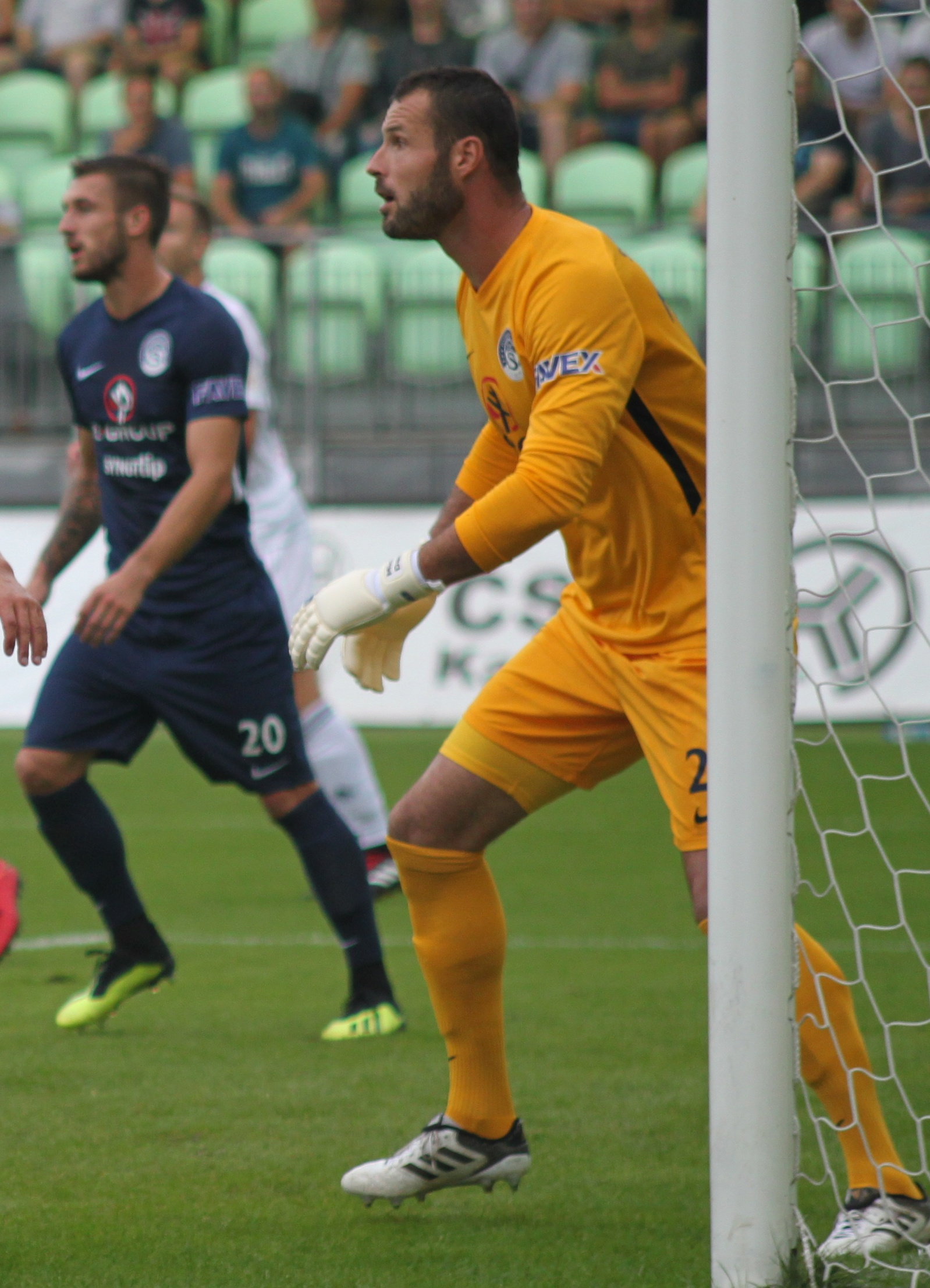 Czech goalkeeper Michal Daněk (1. FC Slovácko) at match against MFK Karviná